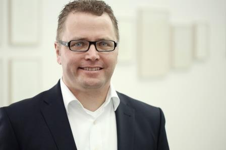 Rainer Krumm